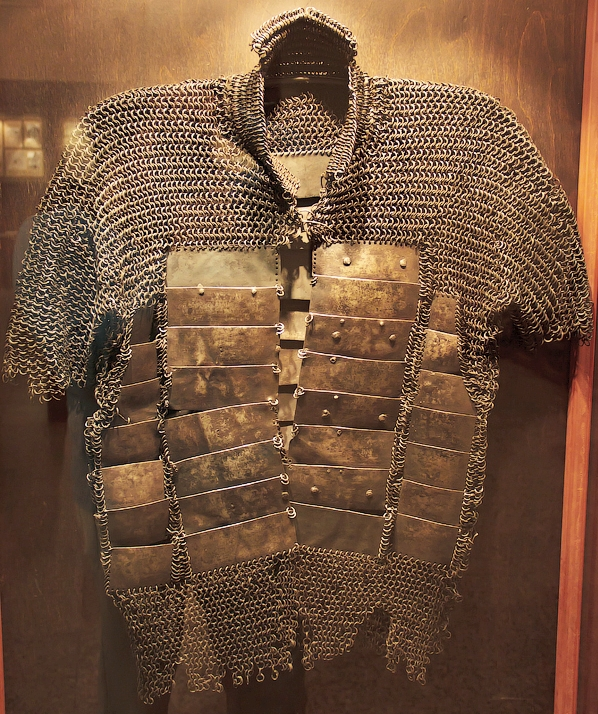 Russian mail armor from 13th century, taken in Hermanni linn museum, Narva, Estonia